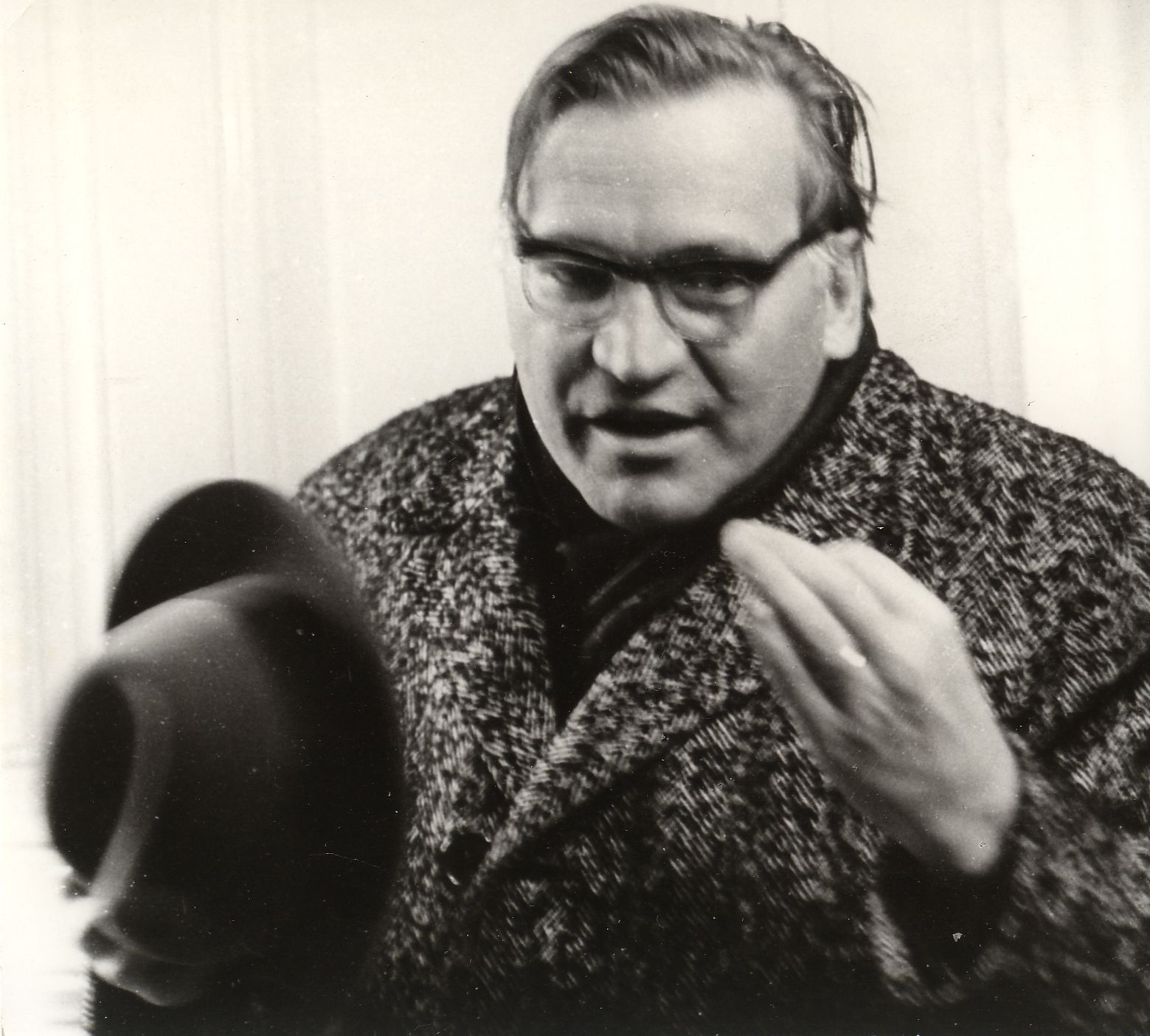 Samu Benkő (1928-) Széchenyi Prize-winning Transylvanian Hungarian cultural historian, outstanding figure of Bolyai research, external member of the Hungarian Academy of Sciences